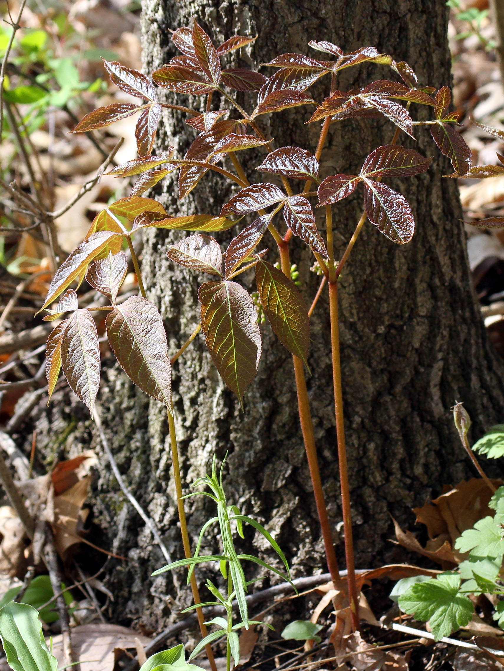 Self made picture of A. nudicaulis, made in the spring of 2008, taken in a woods in Minnesota.